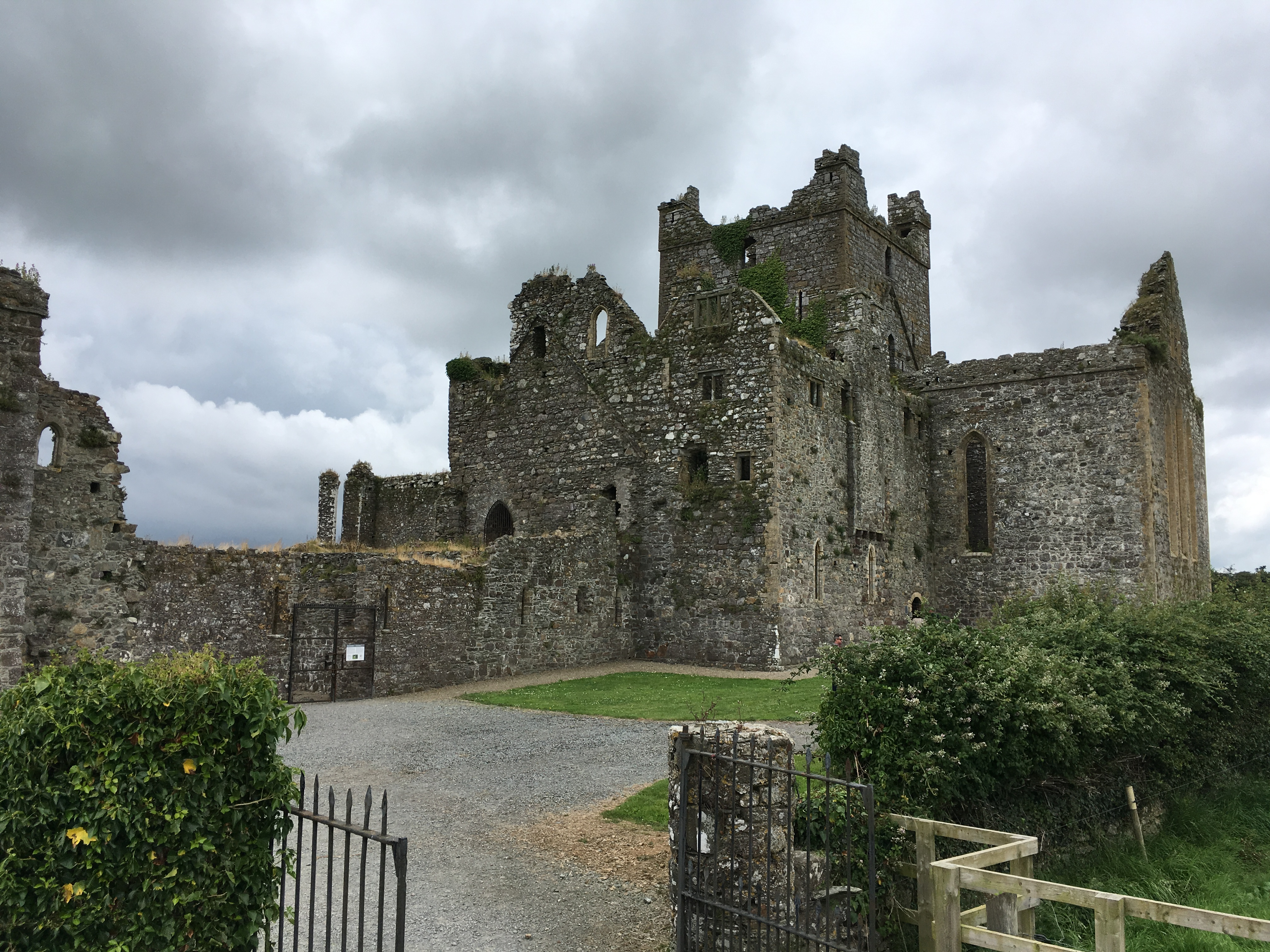 From left to right, parlour, chapter room, south transept and living quarters, tower and choir.